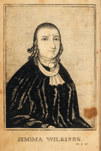 Portrait of Public Universal Friend